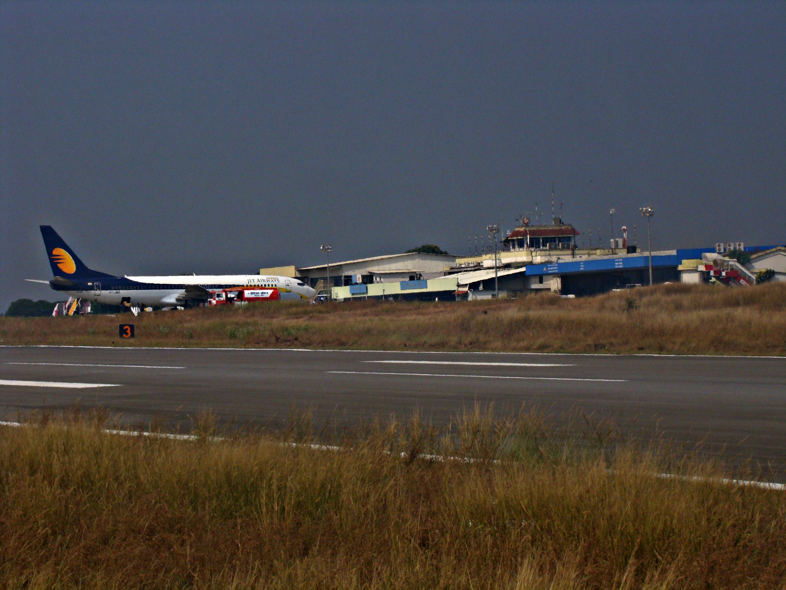 Jet Airways Boeing 737 at Mangalore airport (old terminal) viewed from runway. Photographed by SONY DSC-H9, retouched with Picnik